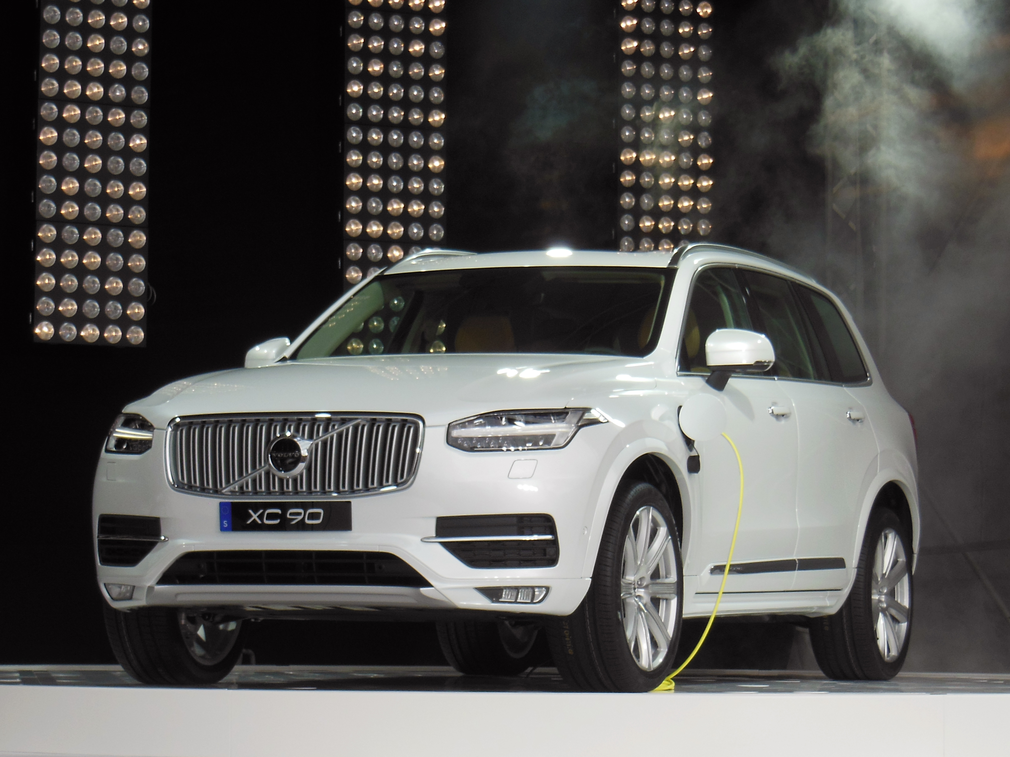 The second version of Volvo XC90 is presented at Gustaf Adolfs torg in Gothemburg, 31 August 2014.